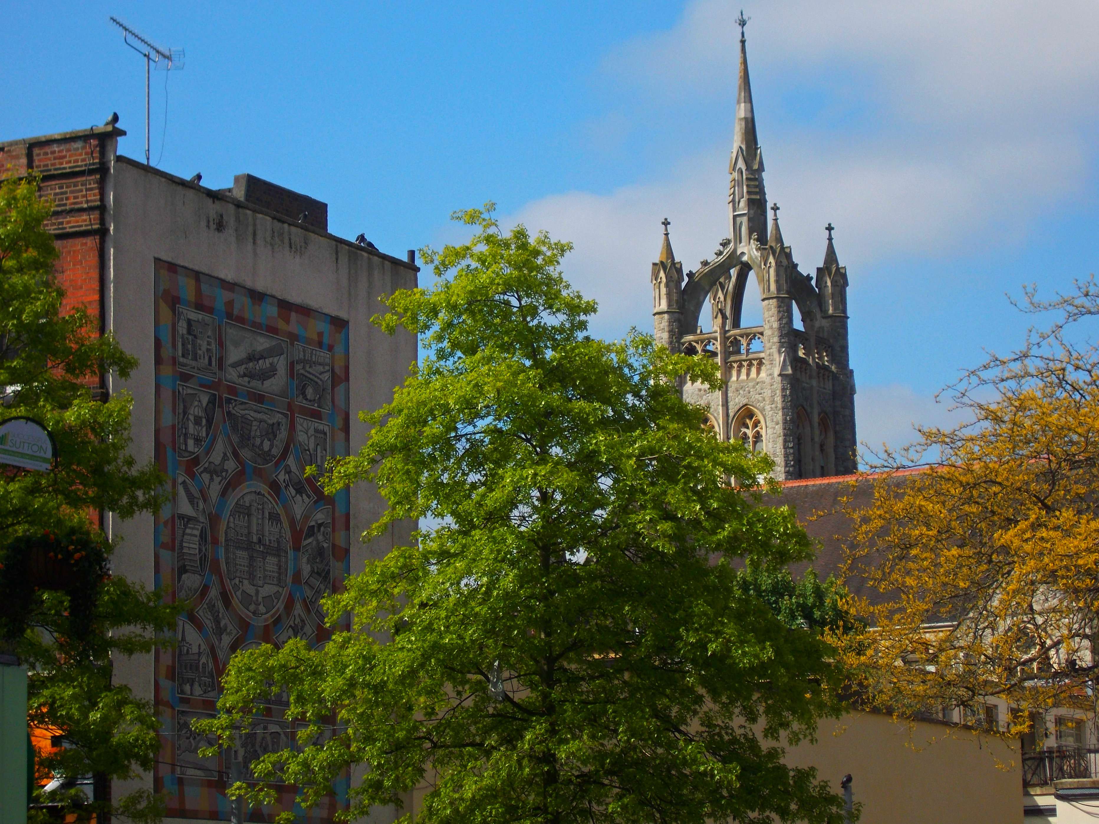 Trinity Square with its heritage mosaic, and Trinity Church behind it in SUTTON , Surrey, Greater London